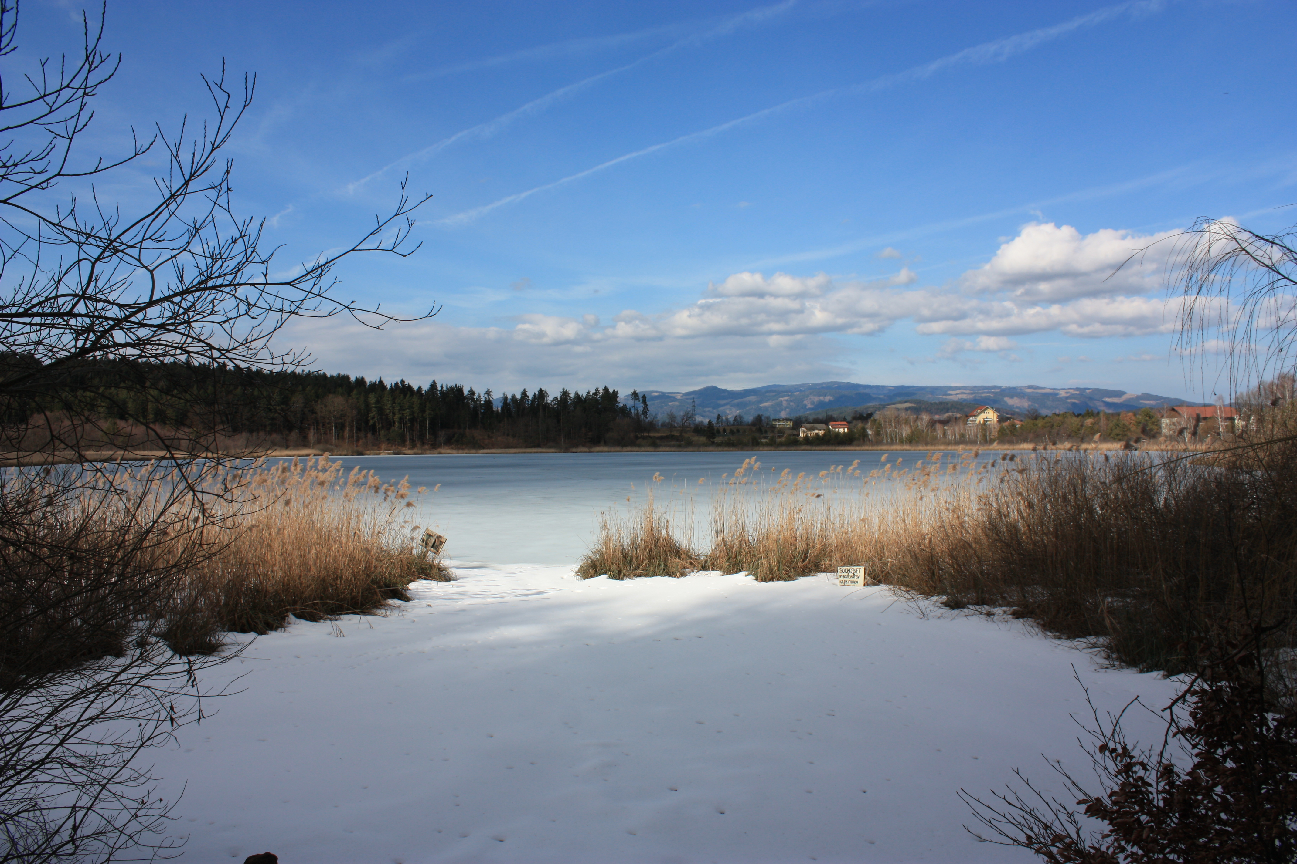 Kleinsee Locality: Sankt Kanzian Community:Sankt Kanzian am Klopeiner See